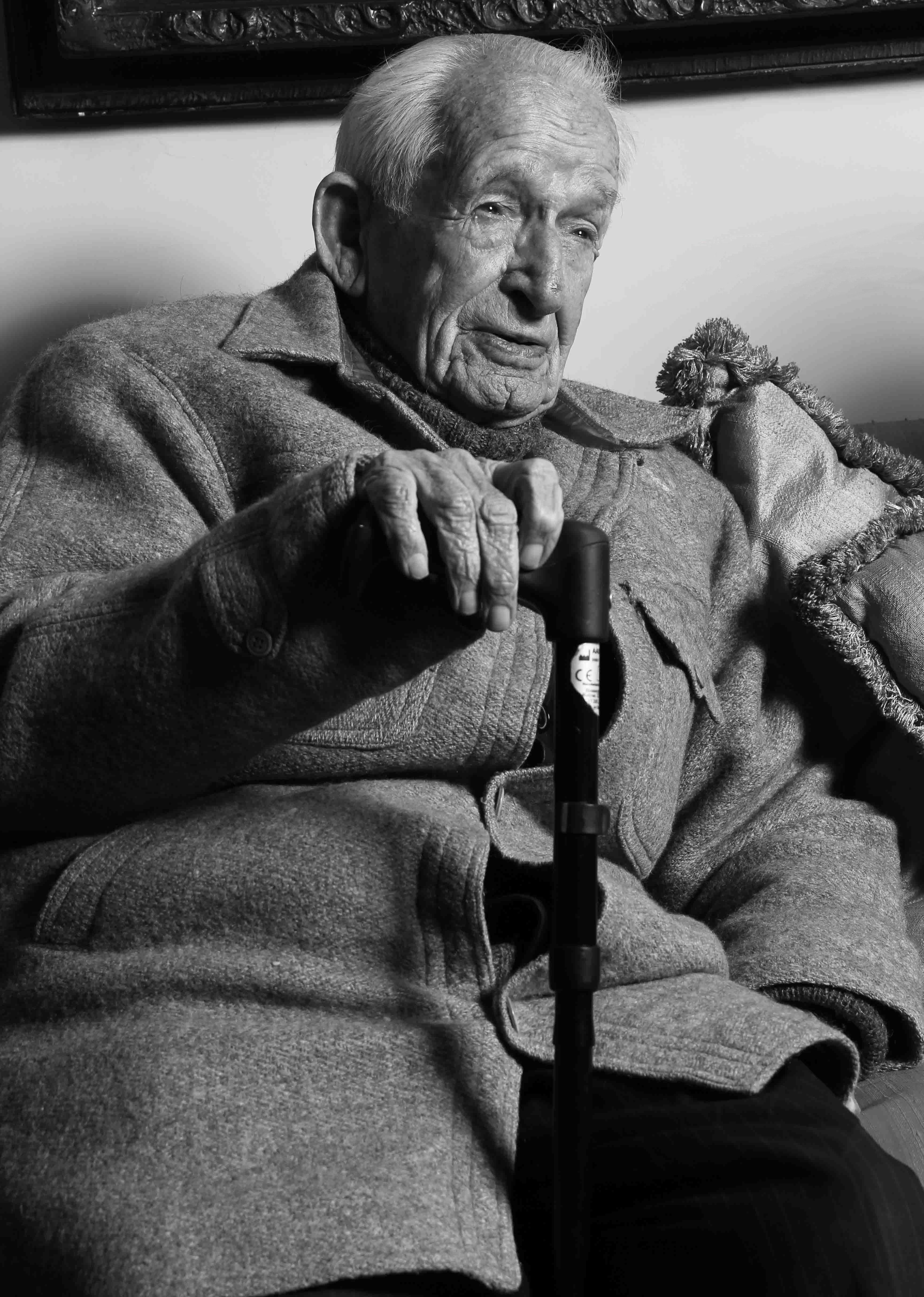 I like a teacher who gives you something to take home to think about besides homework. A 96 year old Mr Langlands british major works full-time as Principal of the Langlands School and College in Chitral, Pakistan. He is responsible for educating 900 pupils between the ages of 4 – 18. He is very respected by many distinguished people in Pakistan and the UK and he is looking for a successor. Mr. Langland joined Pakistan army right after the partition. After his retirement he was asked by the government of Pakistan to teach at Aitchison College as he was a teacher before participating in WWII. He served Aitchison College 2 years and among his bright students were Imran Khan, Shah Mehmood Qureshi, late Farooq Ahmed Khan Leghari (ex president of Pakistan), Wasif Ali Khan and many more. Some of the Mr. major Langlands has received awards thus far includes: Hilal-e-Imtiaz, Pakistan 2011. Sitara-e-Pakistan, 2004 Sitara-e-Pakistan 1987 M.B.E (By queen Elizabeth) 1982 CMG 2010. Silver Plate by Pakistan Society London 2010.